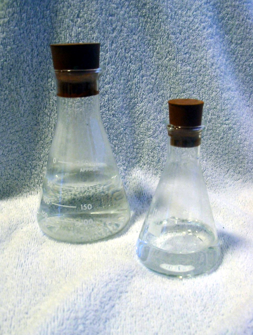 250ml and 100ml erlenmeyer flasks with rubber stoppers